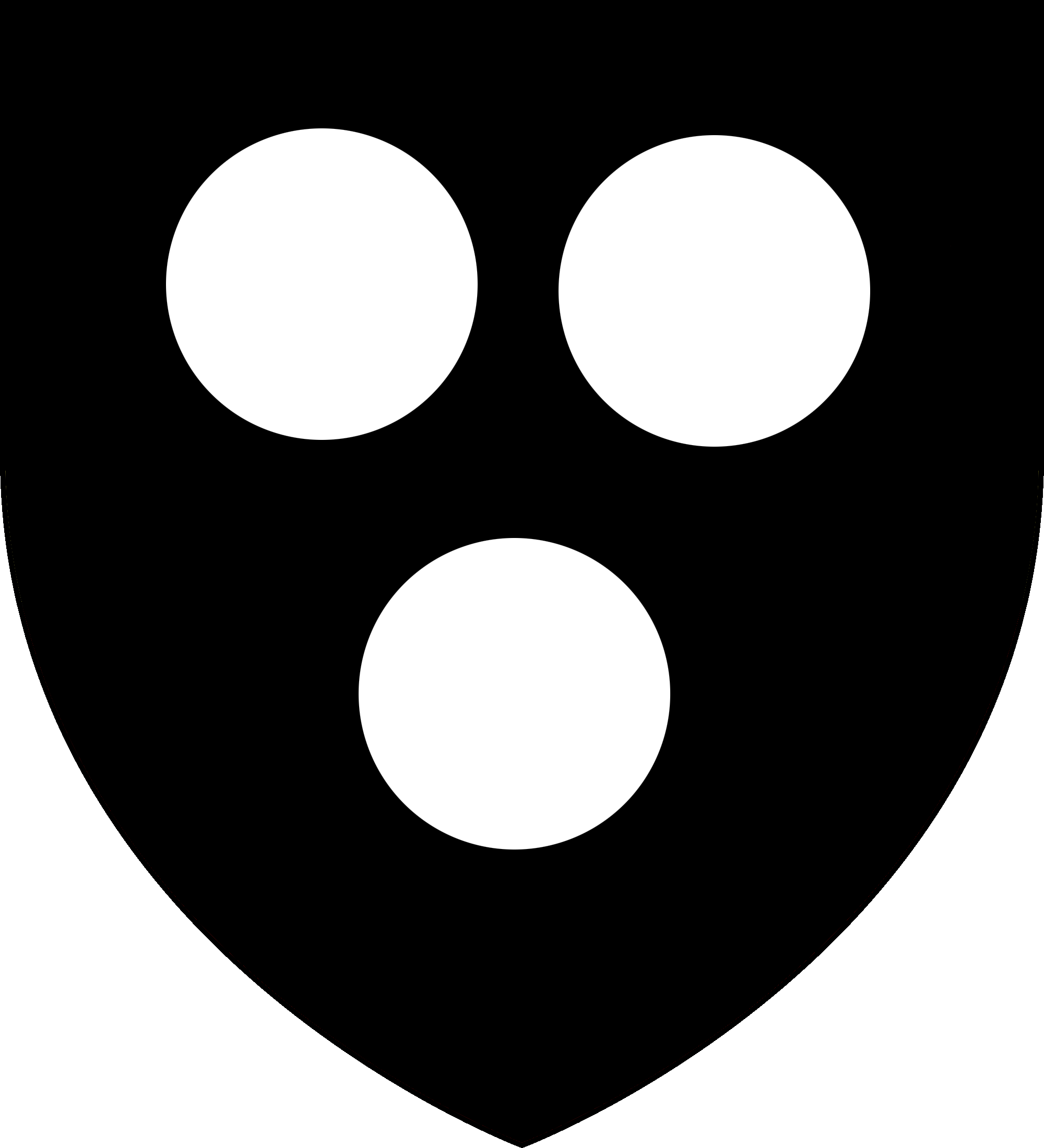 Escudo de armas de la casa de Bournonville (o Barnaville), antes de la I cruzada.